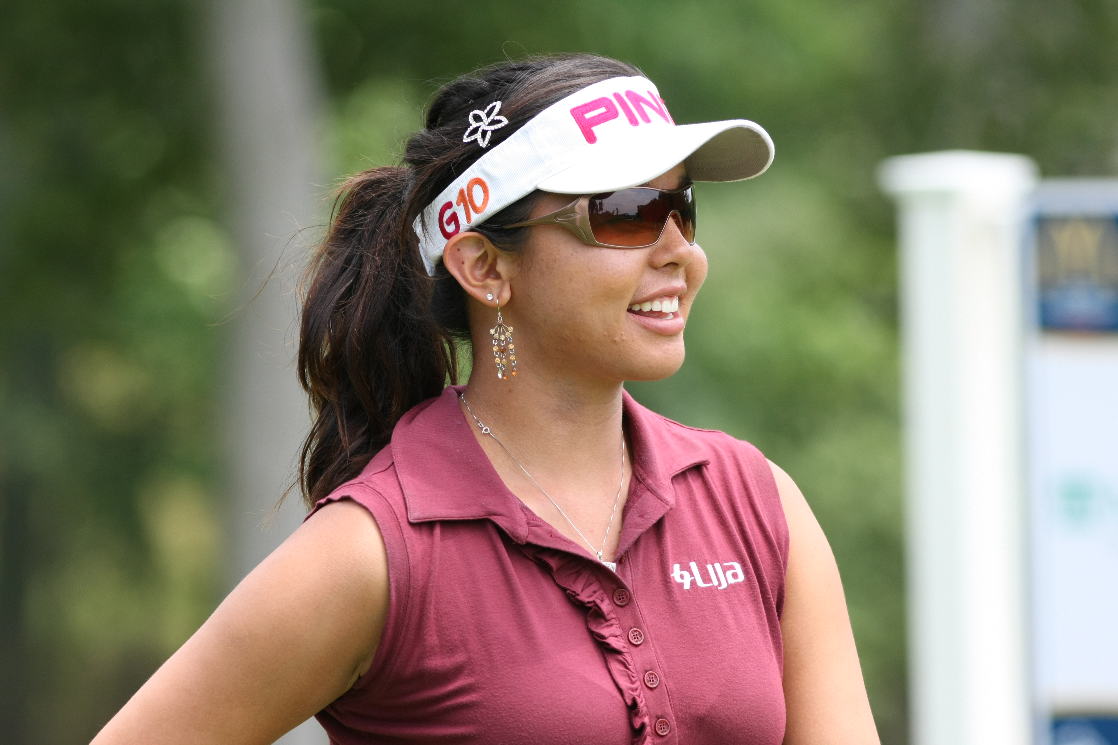 Jane Park (USA) during pro-am before 2008 LPGA Championship.